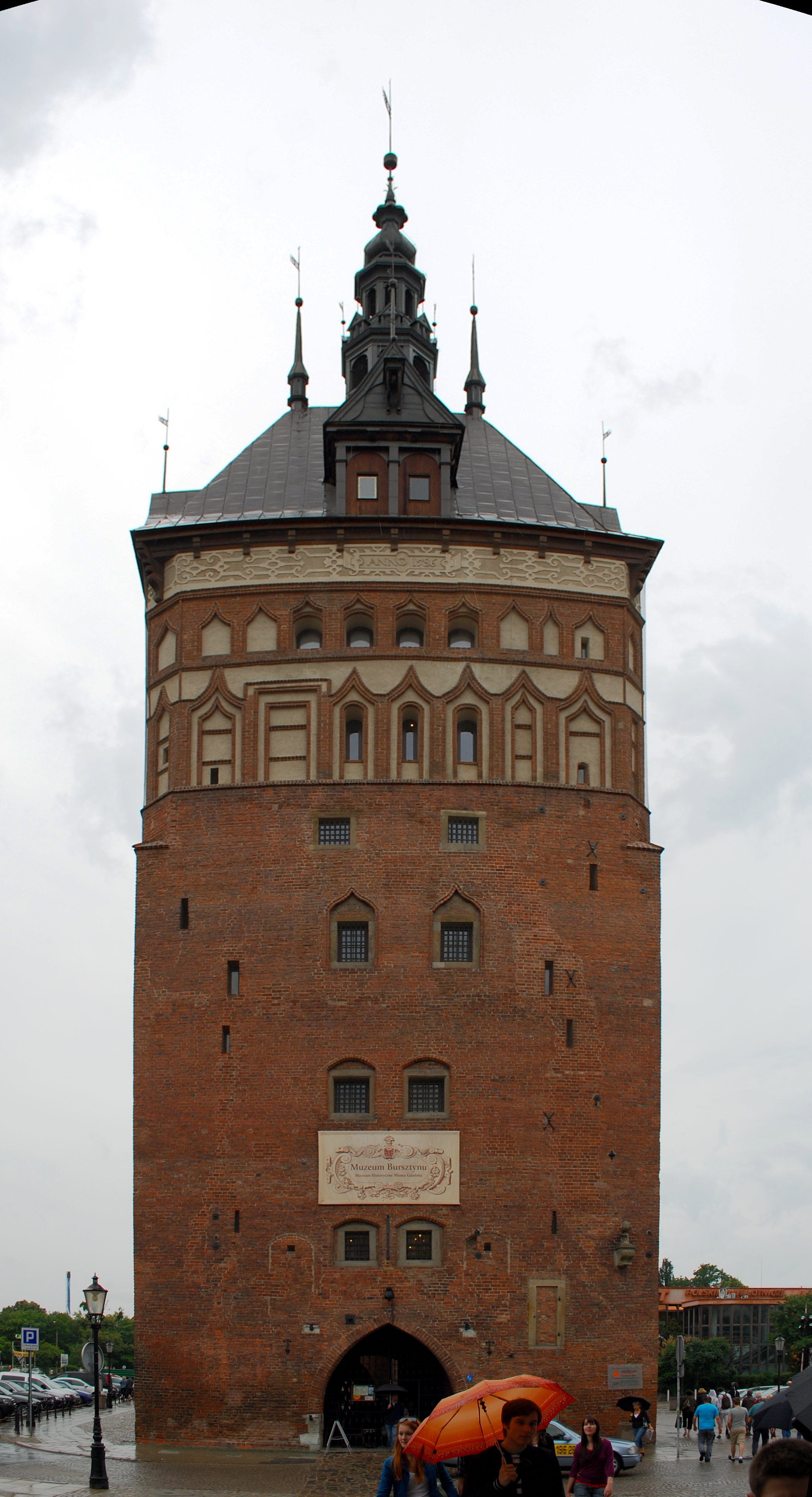 Gaol Tower in Gdańsk, PolandRomână: Turnul închisorii din Gdańsk, Polonia